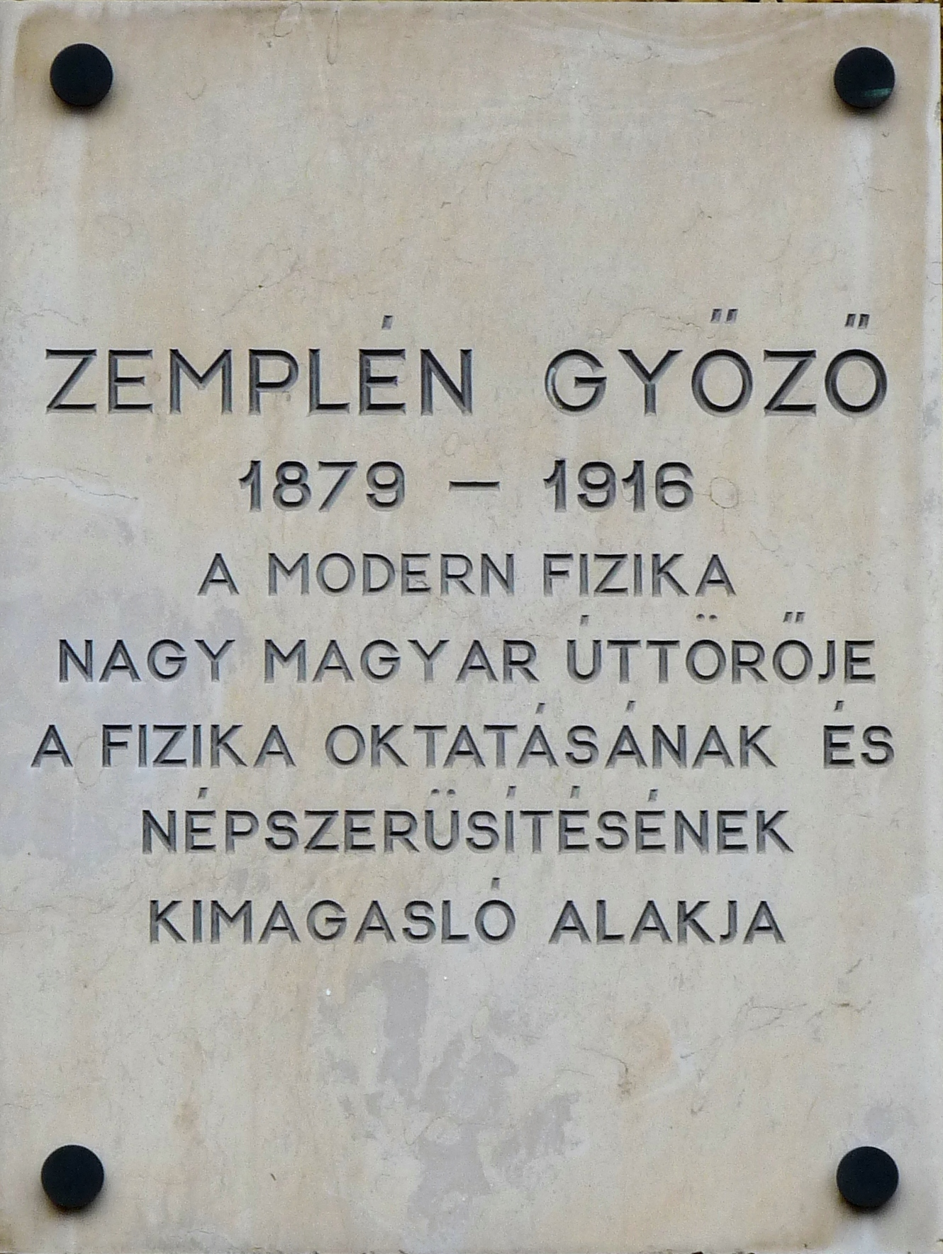 Commemorative plaque to Mr. Győző Zemplén (1879–1916), Hungarian physicist, placed in the street bearing his name. (Budapest, District III, Zempléni György Street Nr 8).